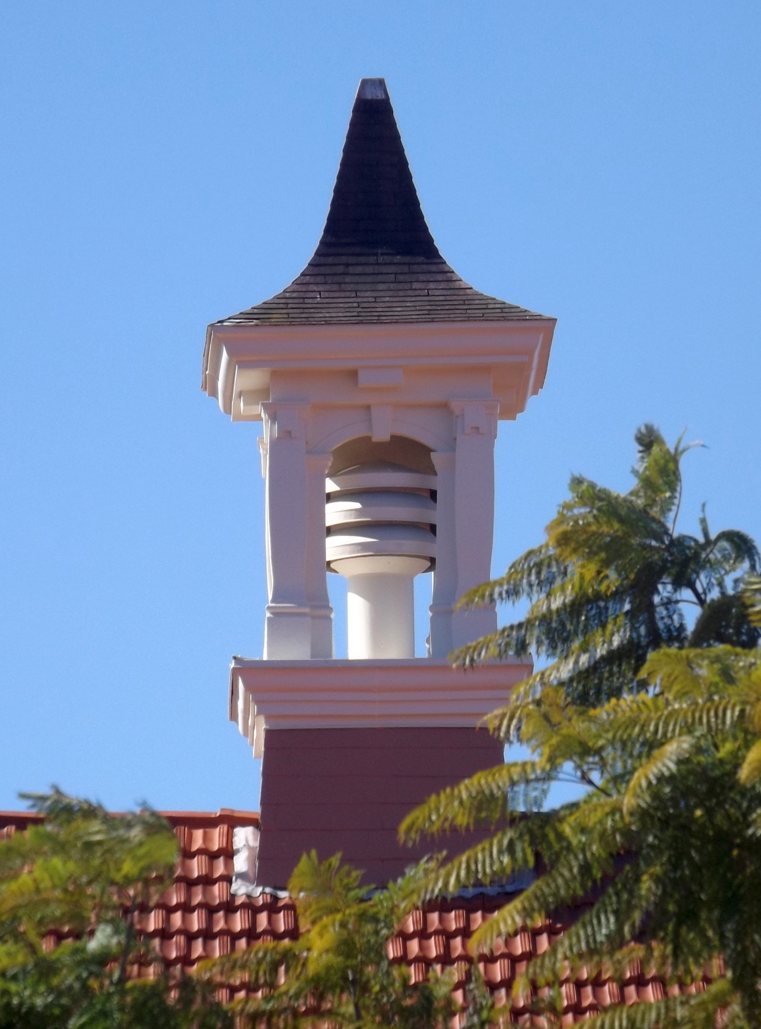 Photo of the rooftop of Windsor State School at Windsor, Brisbane, Queensland, Australia.